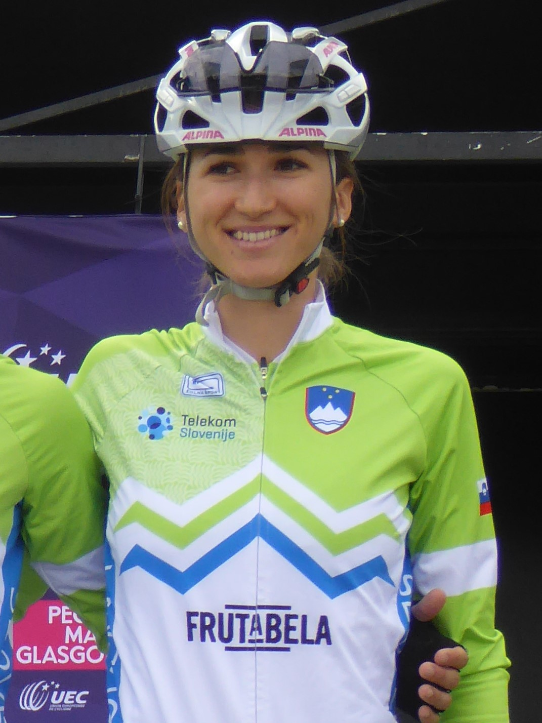 Polona Batagelj (Slovenia), prior to the women's road race at the 2018 UEC European Road Cycling Championships in Glasgow.